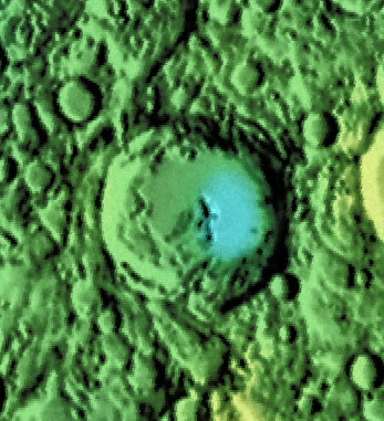 Color-coded Lac 31 from USGS Digital Atlas